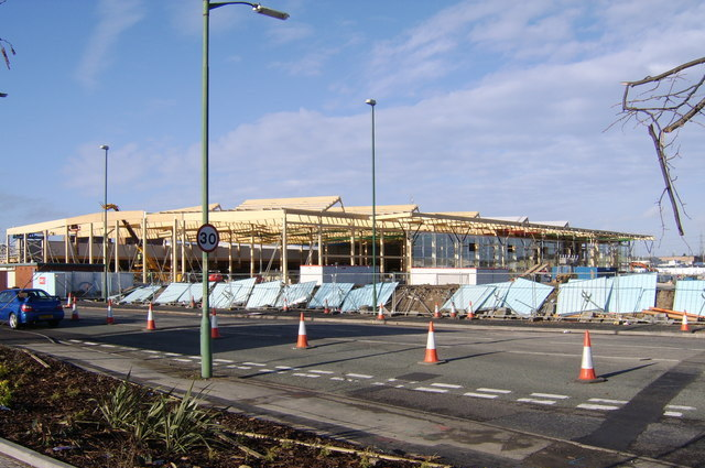 New Tesco Under Construction